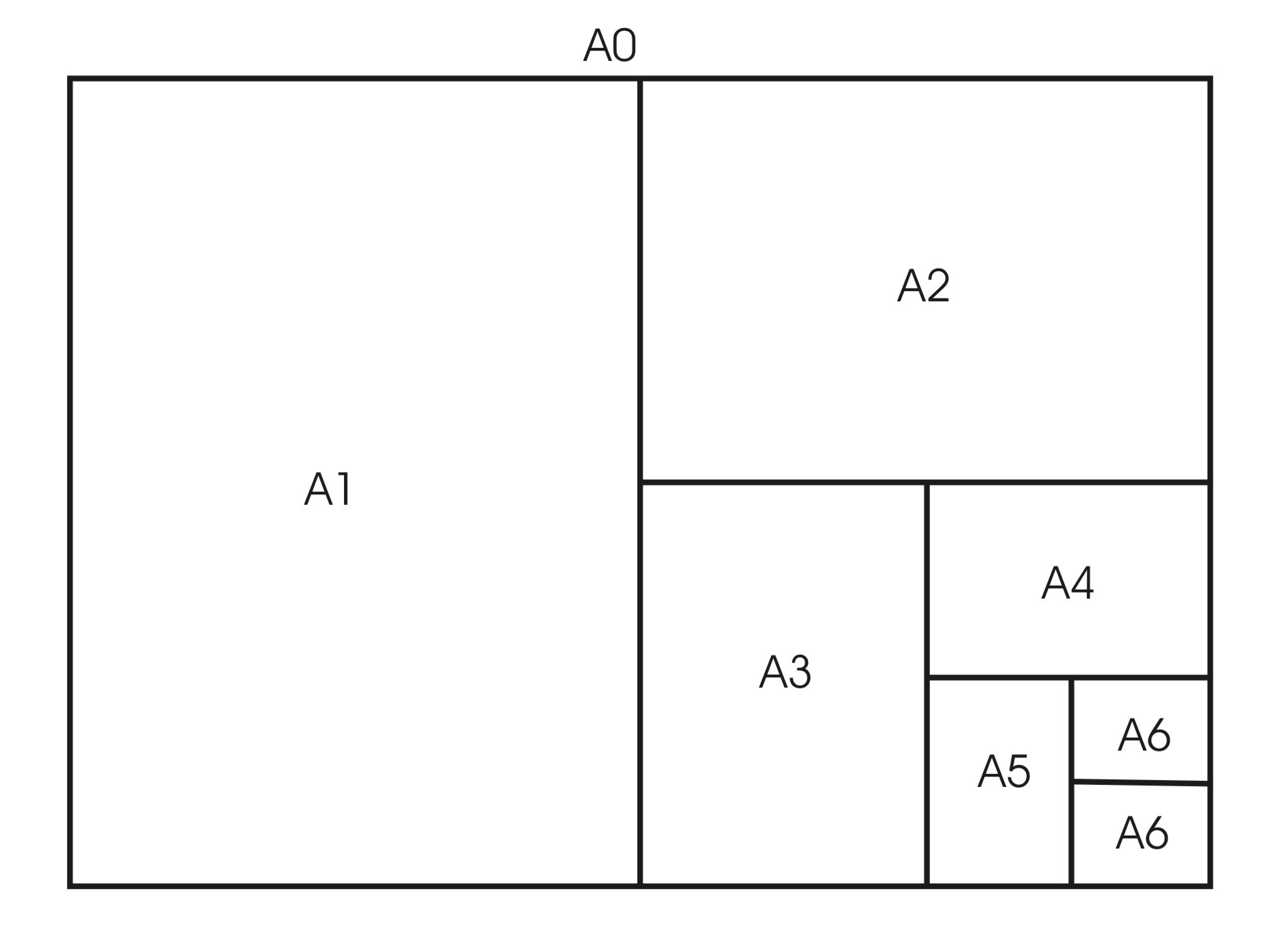 Sizes technical drawings